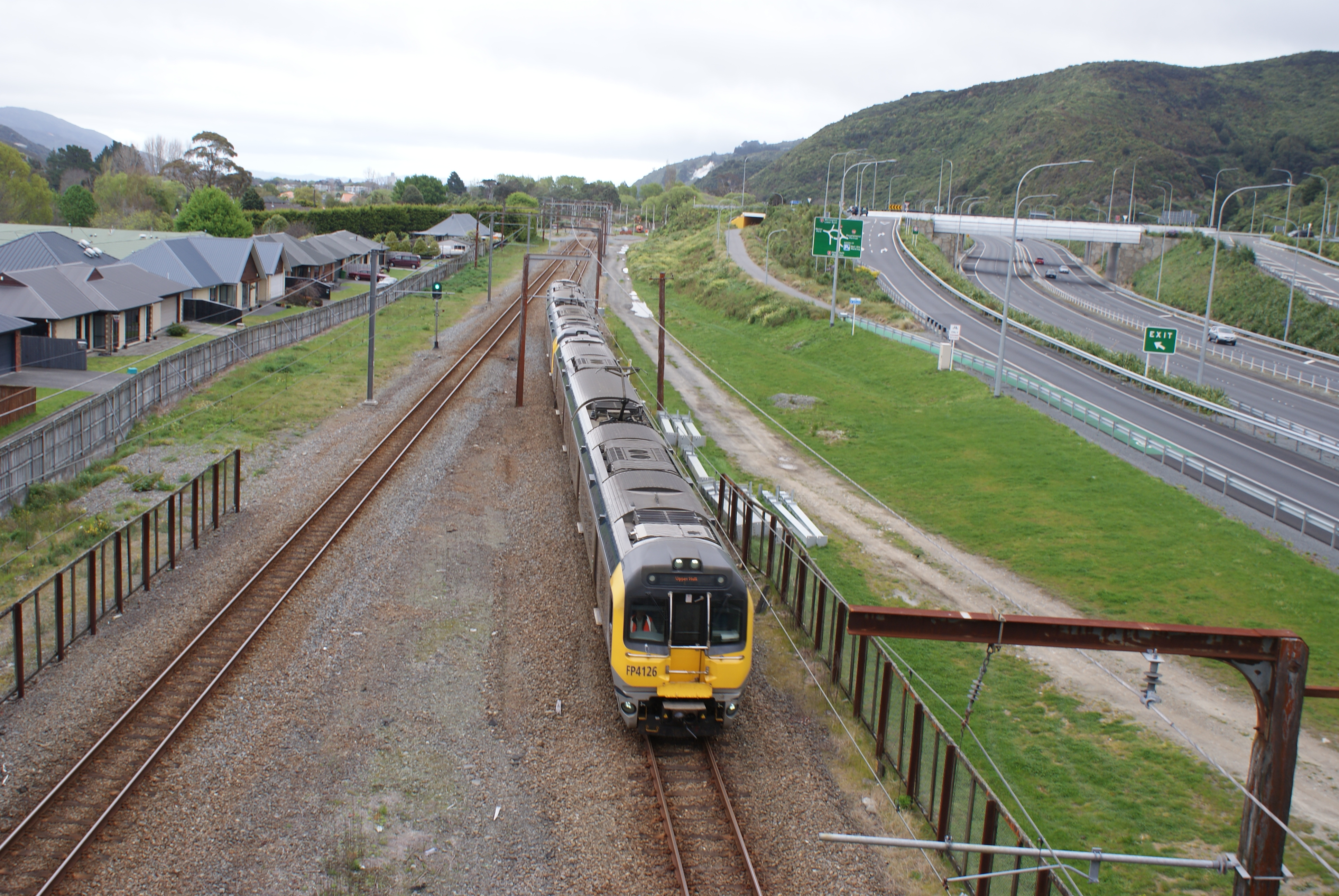 Taken in October 2019. This photo was part of a group I took on the same day at the Haywards Interchange.